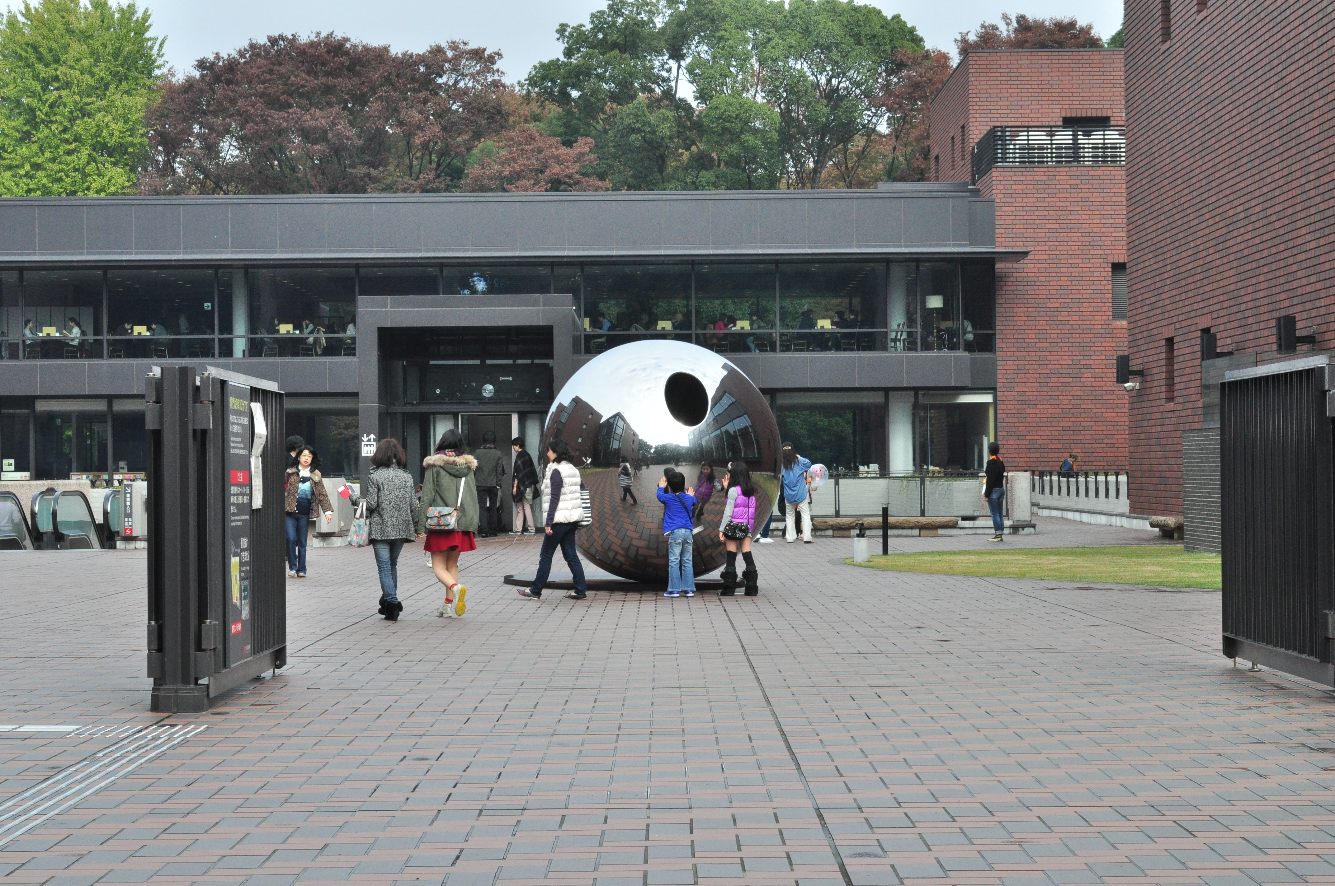 Ueno Park, Tokyo, Japan